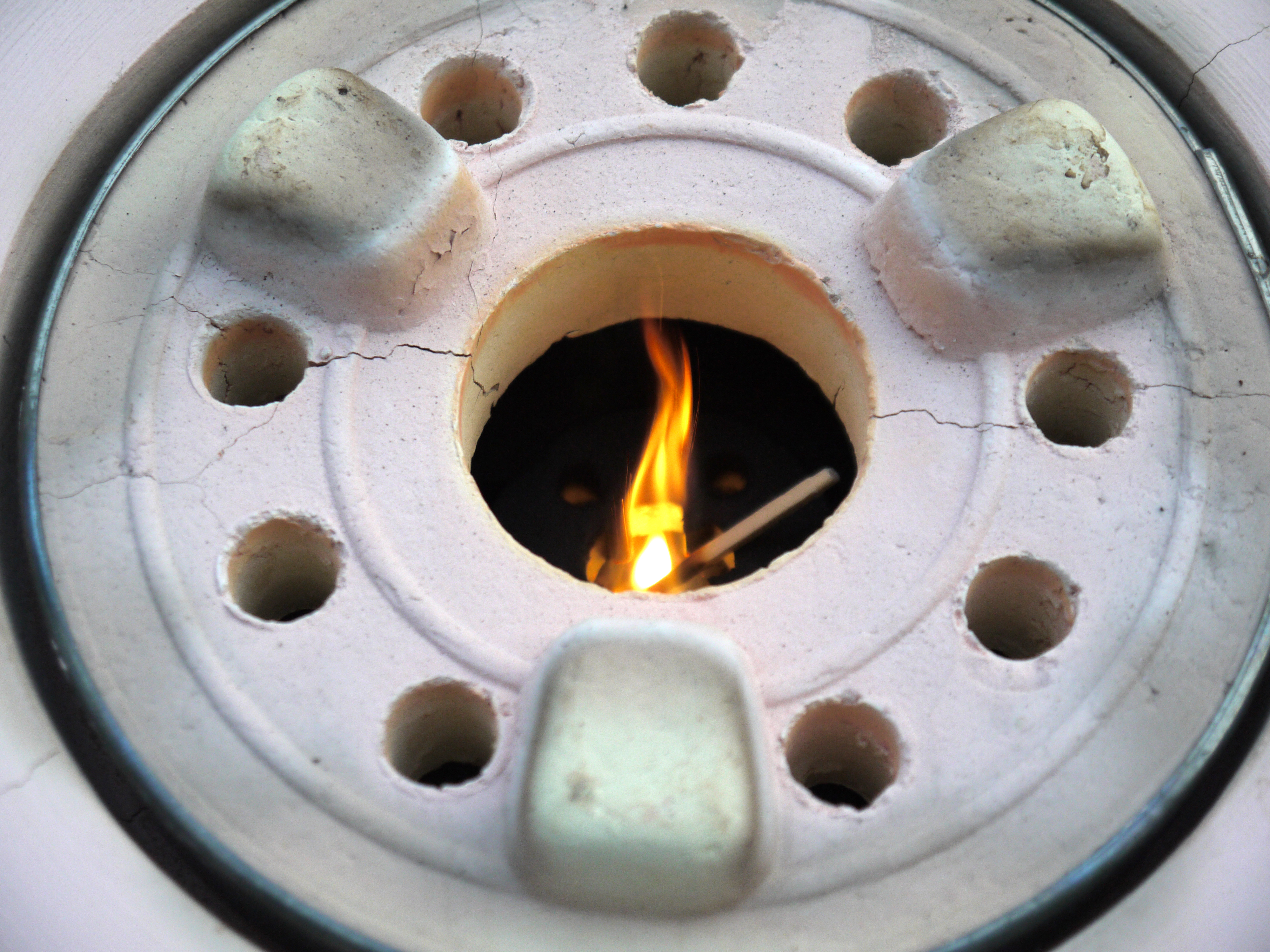 Japanese Rentan FireStrat